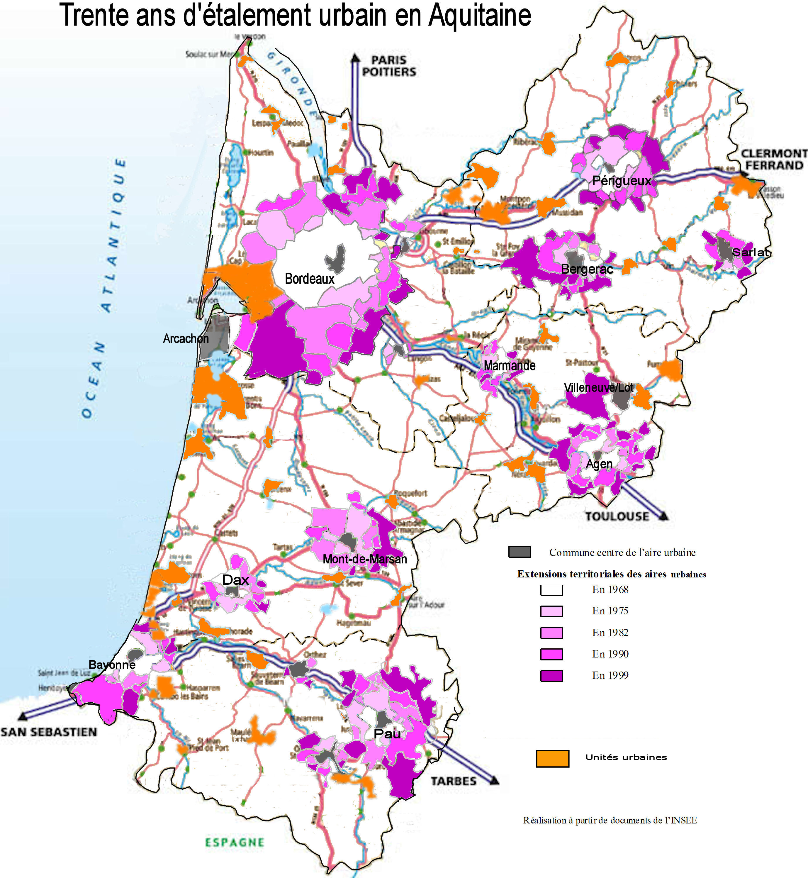 Figure of growth of urban sprawl in Aquitaine during the last thirty years